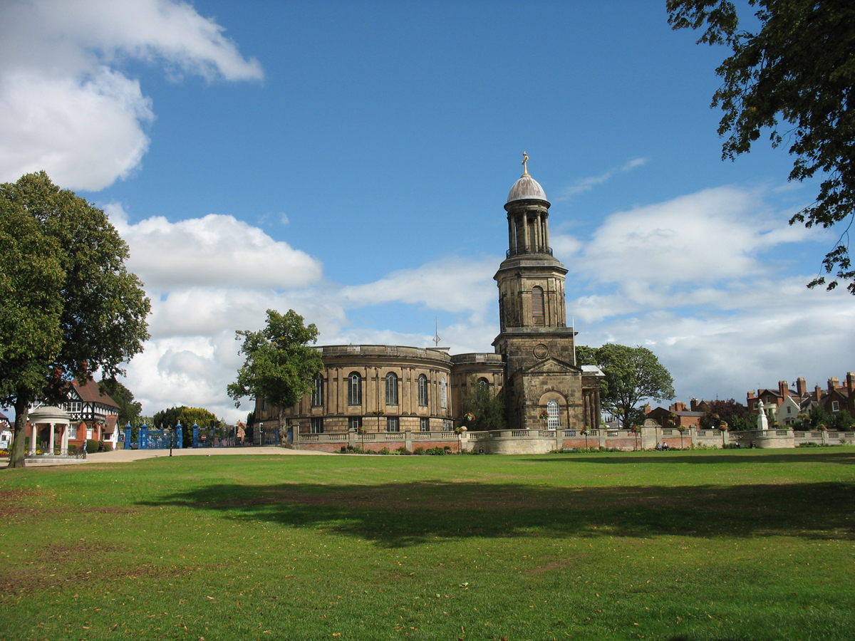 St. Chads church in Shrewsbury, Shropshire.